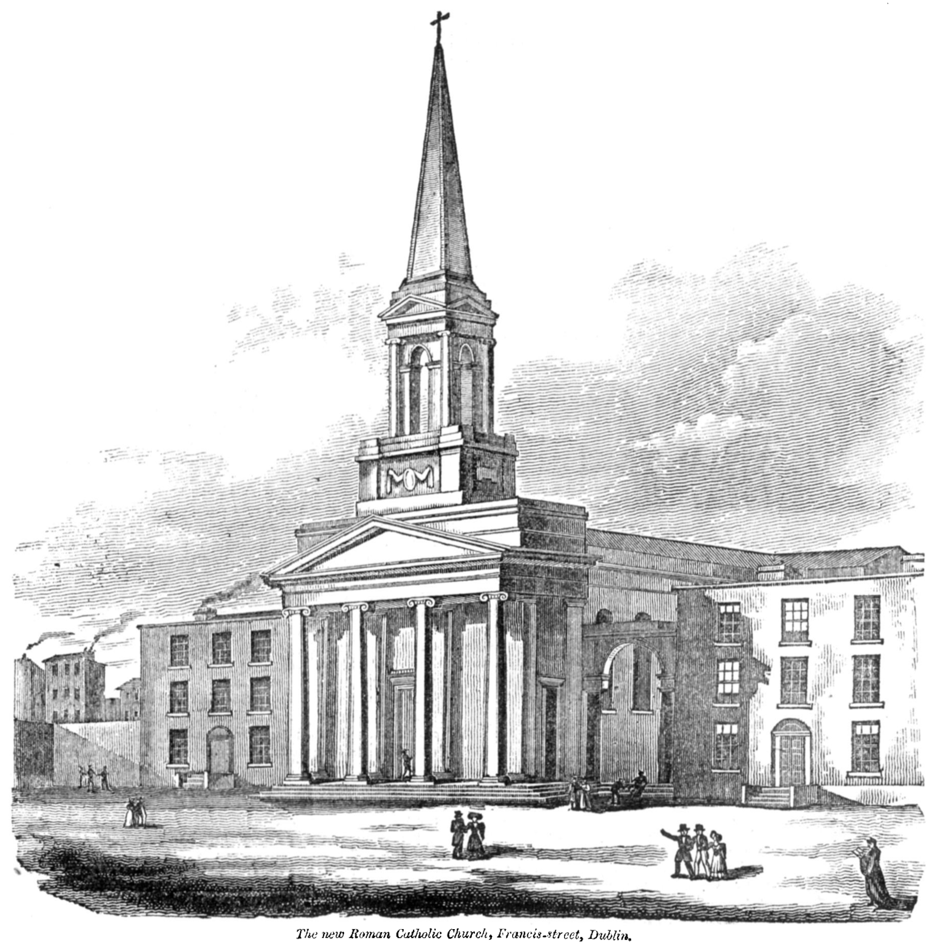 St. Nicholas of Myra (Without), Frnacis Street, Dublin. This picture from the Dublin Penny Journal of 1832, shows how the church orignially looked with its spire. The alterations in 1860 changed the spire to a dome and clock and changes to the pediment.